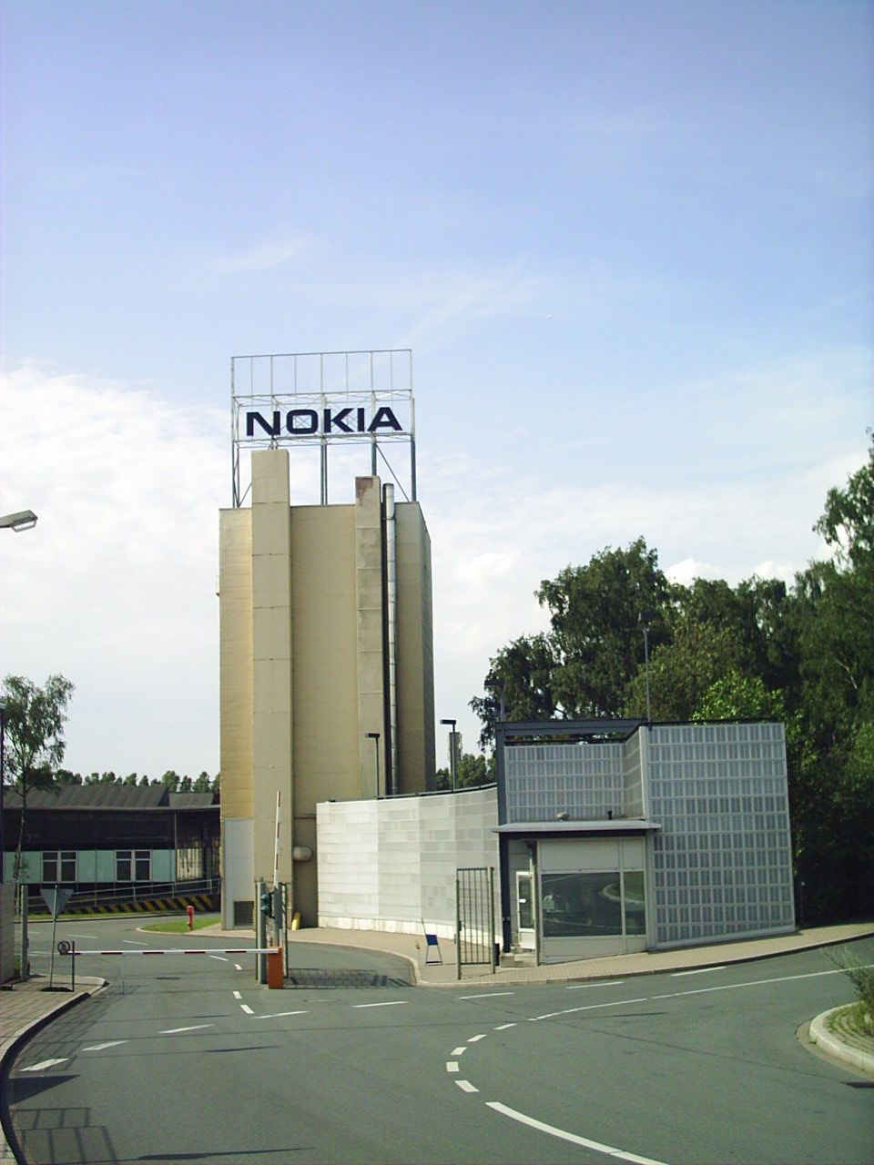 NOKIA, Bochum, Germany check usage